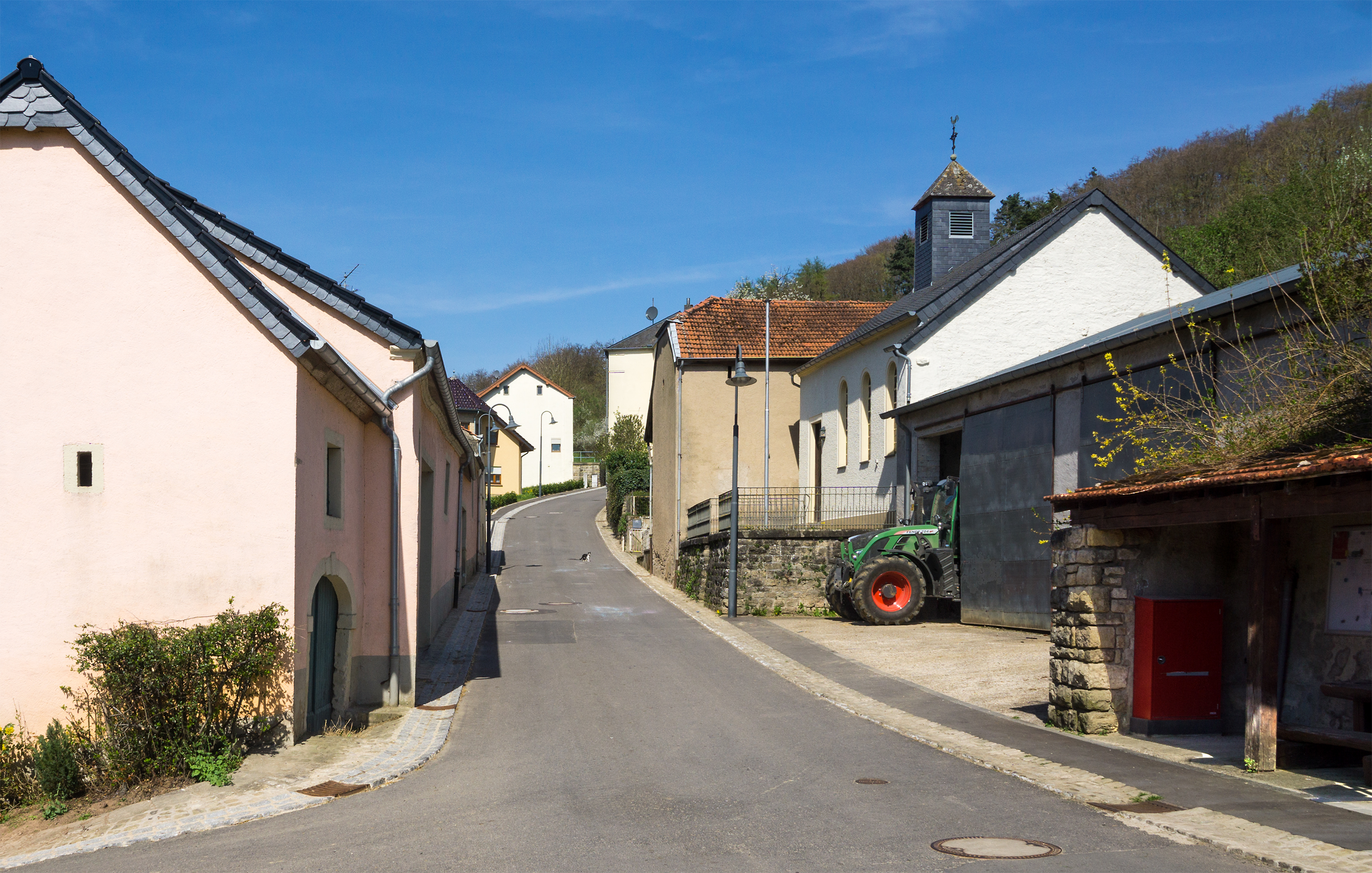 Duerfstrooss in Girst